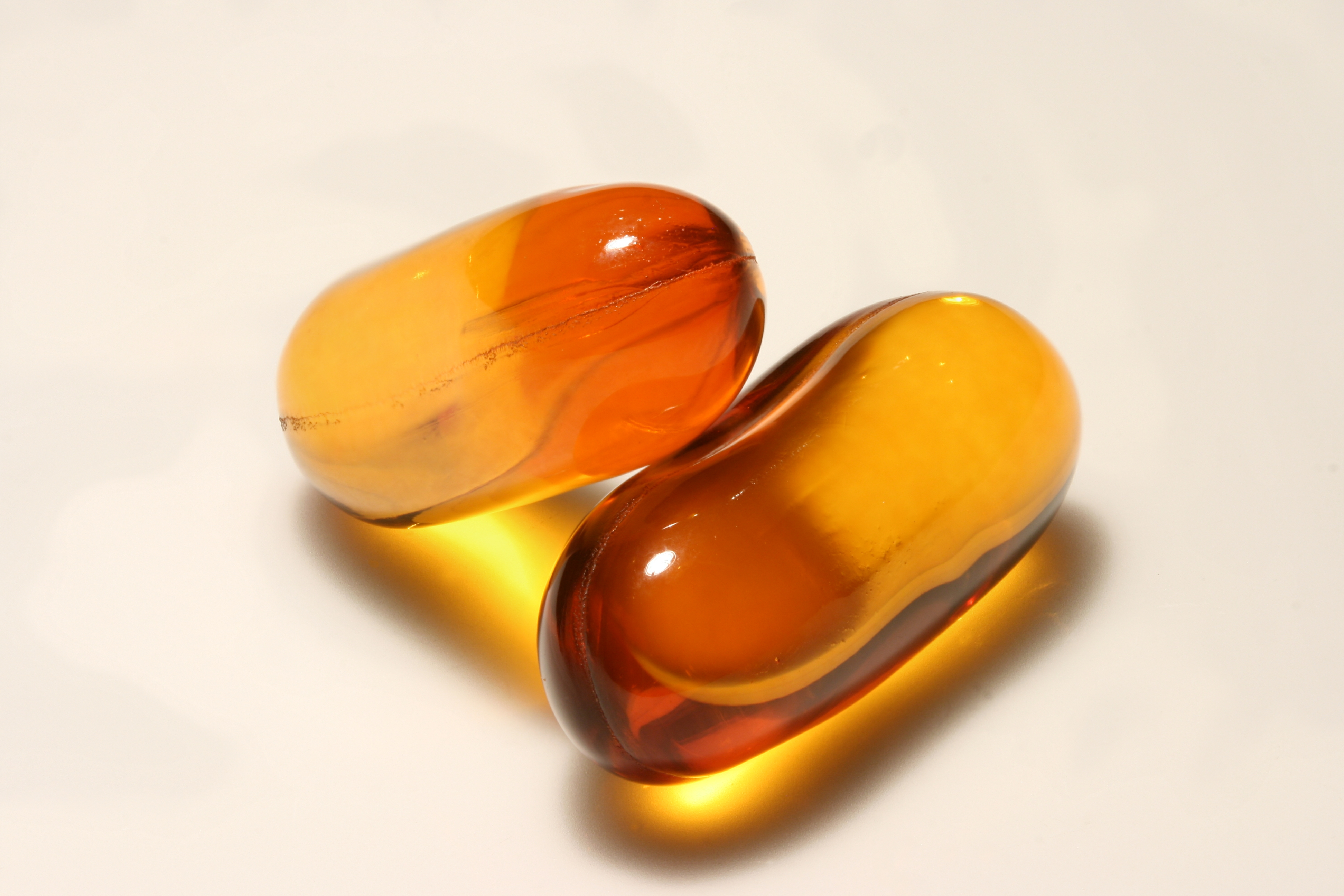 Salmon oil capsule. Salmon oil capsules contain salmon oil, which is extracted from salmon and is primarily in capsules available, as it has a very strong odor. Salmon oil has a high content of triglycerides, which contain omega-3 fatty acid residues.